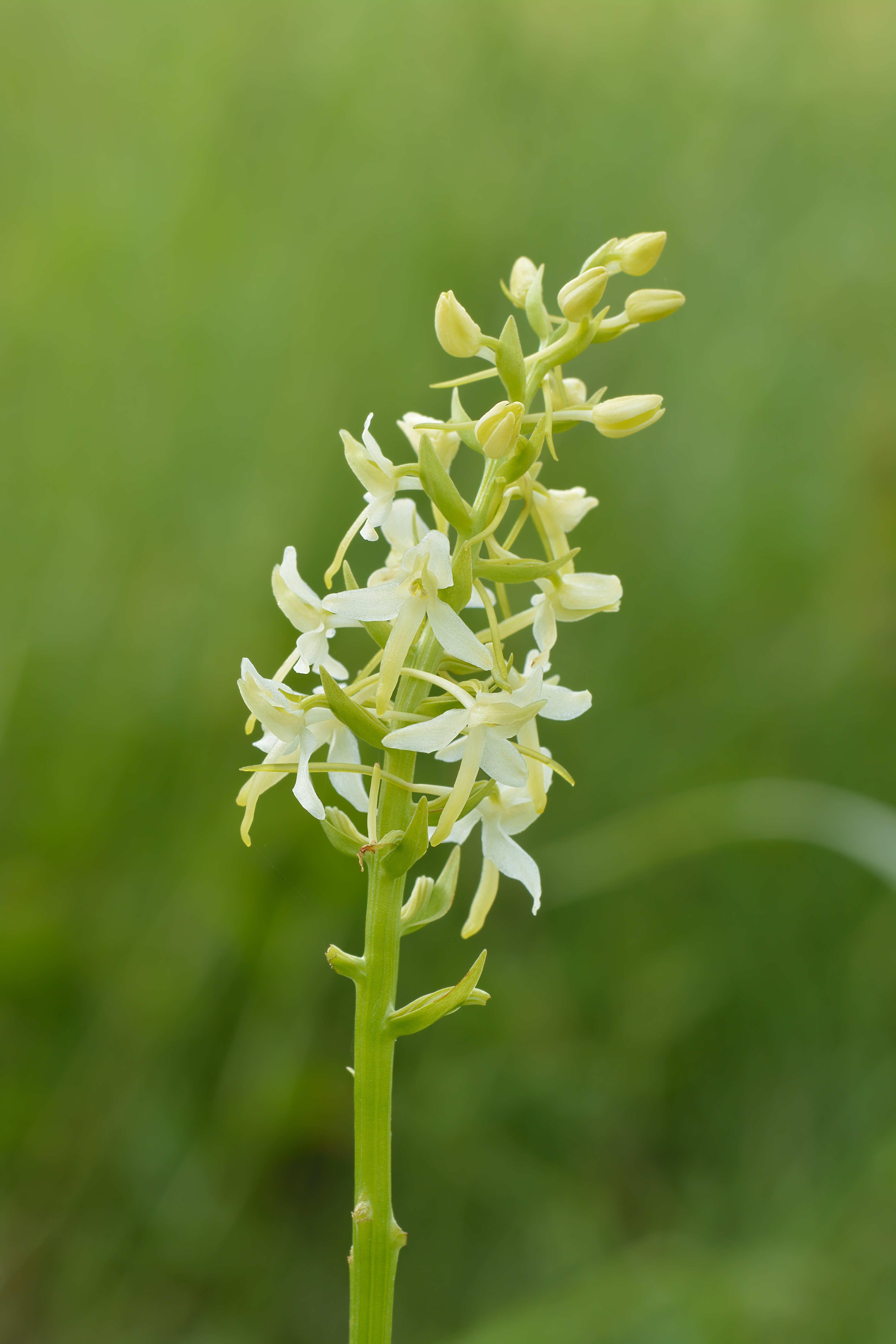 Lesser Butterfly-orchid (Platanthera bifolia), Natural habitat (alvar) in Käesalu, Northwestern Estonia. Species belongs to the category III of protected species in the country.